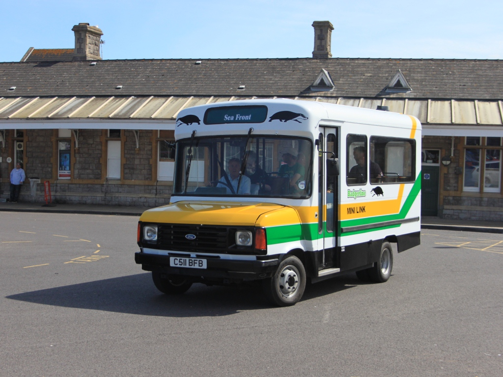 A large number of bus routes were converted to high-frequency minibus operations during the 1980s, but the first town to convert all of its routes was Weston-super-Mare in Somerset, where Badgerline introduced 46 Ford Transit buses for its services on 31 May 1985. Here a preserved example (number 4511, registration C511 BFB) leaves the town's railway station after a visit. It has a Dormobile body conversion.